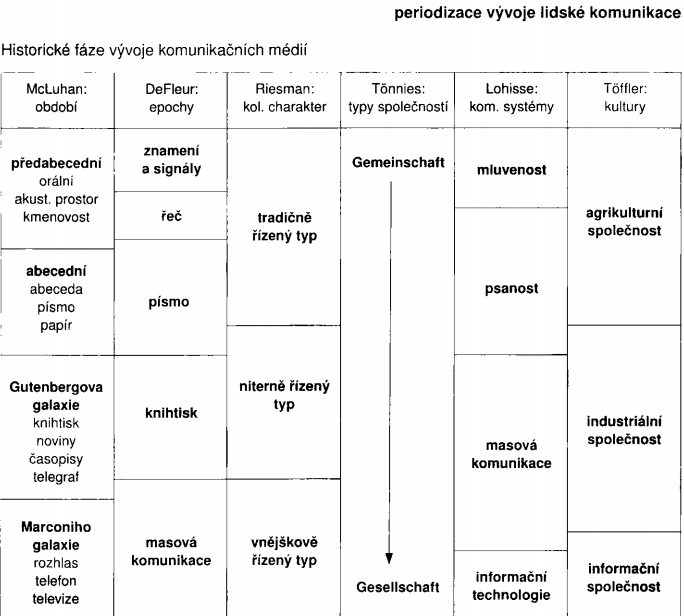 Media periodization